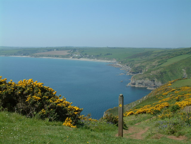 Nare Head and Gerrans Bay. Gerrans Bay from Nare Head, with Carne Beach and Pendower Beach in the distance.